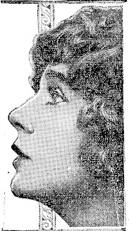 Ann Forrest in an ad for "The Great Impersonation," 1922.